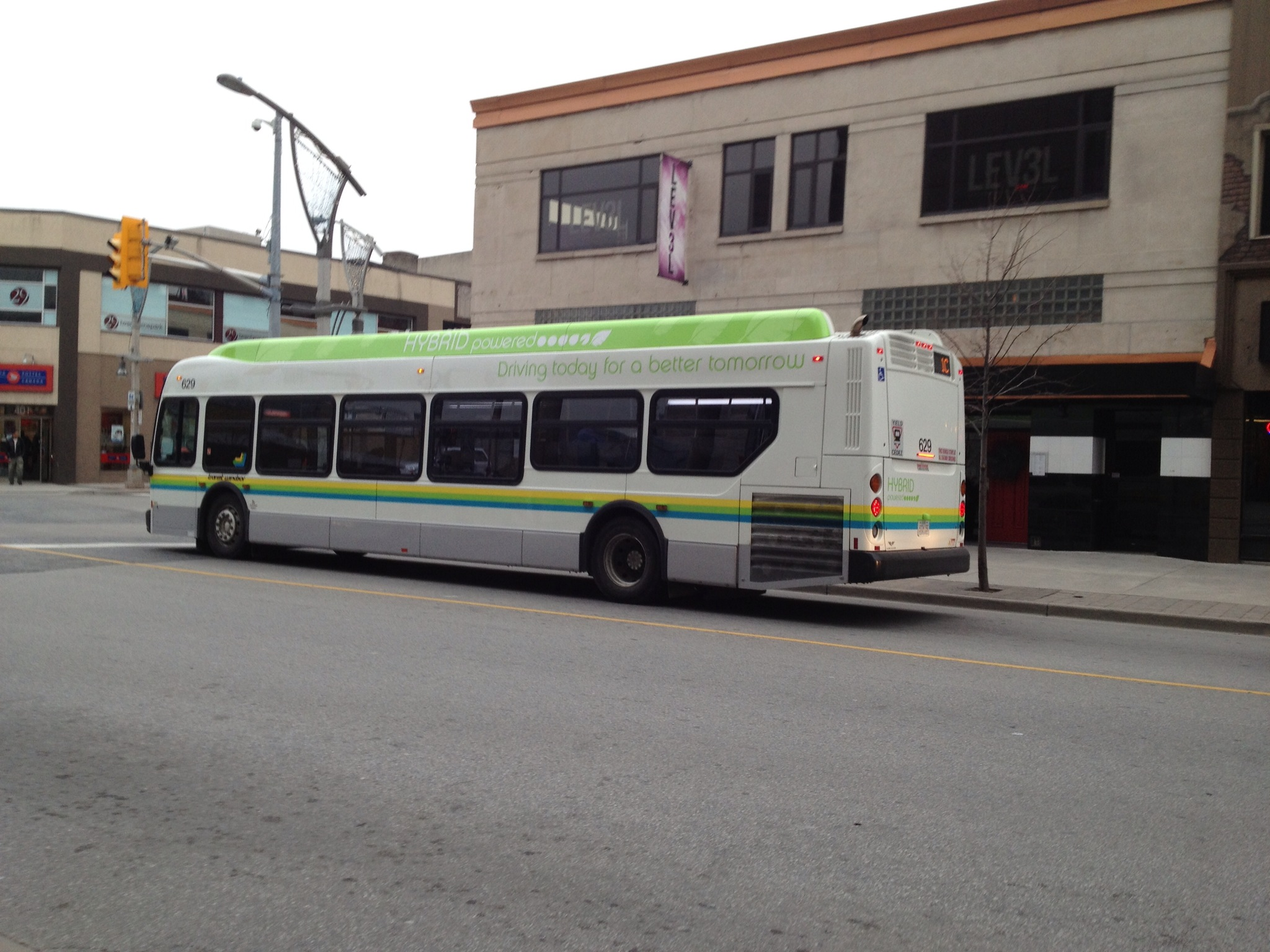 A hybrid diesel Electric vehicle used by Transit Windsor. Vehicle number is 629 and it is on the Transway 1C route. The model is 2011 XDE40 Xcelsior.